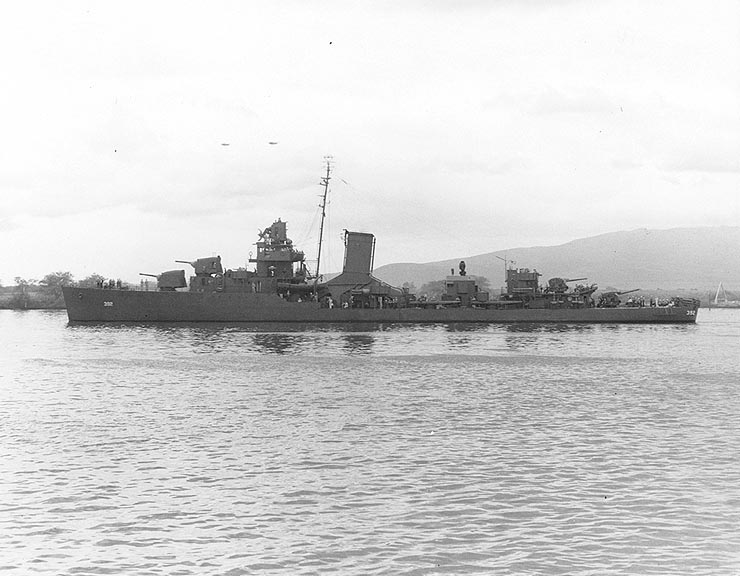 The U.S. Navy destroyer USS Patterson (DD-392) in Pearl Harbor, Territory of Hawaii, in mid-May 1942.